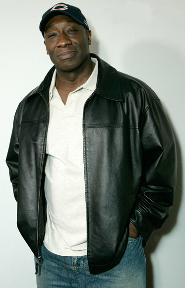 Michael Clarke Duncan at the Warner Brothers Lot in Burbank, California.